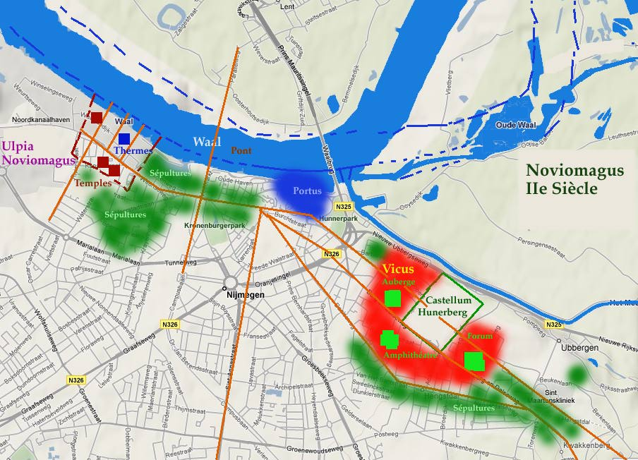 Noviomagus II century